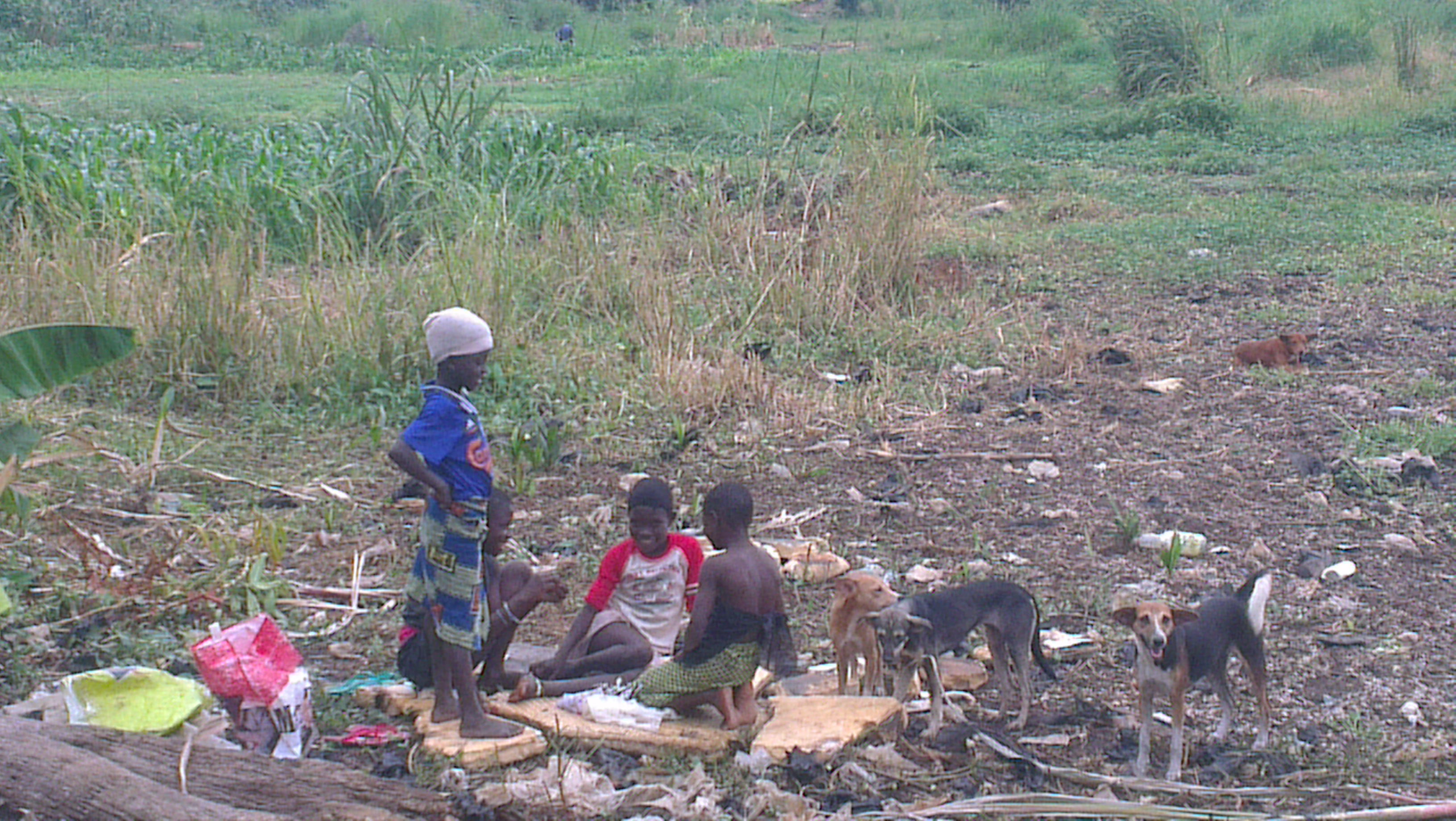 Children at garbage dump site Atikoumé Bay, Togo